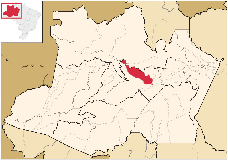 Map of Amazonas highlighting Codajás.